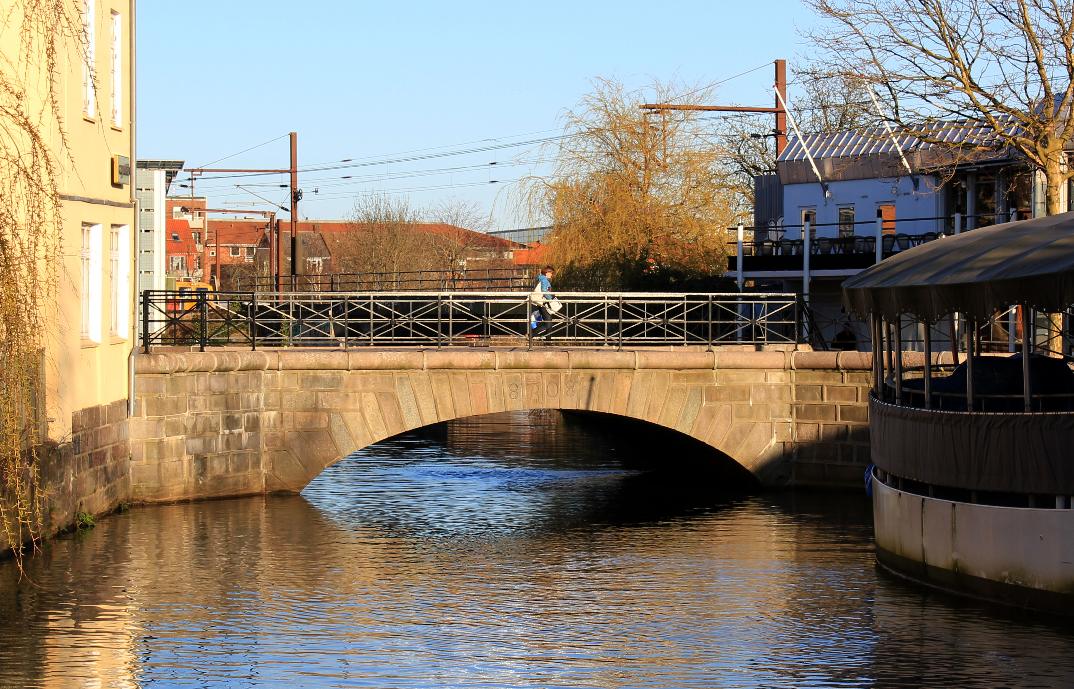 Soenderbro (Sønderbro) is a listed bridge over the Kolding River and is located in Søndergade, which is located centrally in Kolding. Søndergade, that goes over the bridge, has since the Middle Ages and right up until 1943, been the main traffic street. The current basic structure is made of granite and was inaugurated in November 1807.